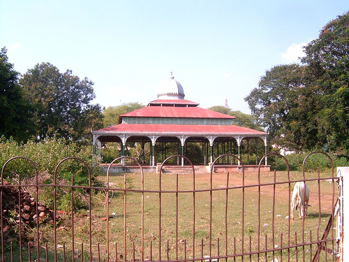 sabha mandapa